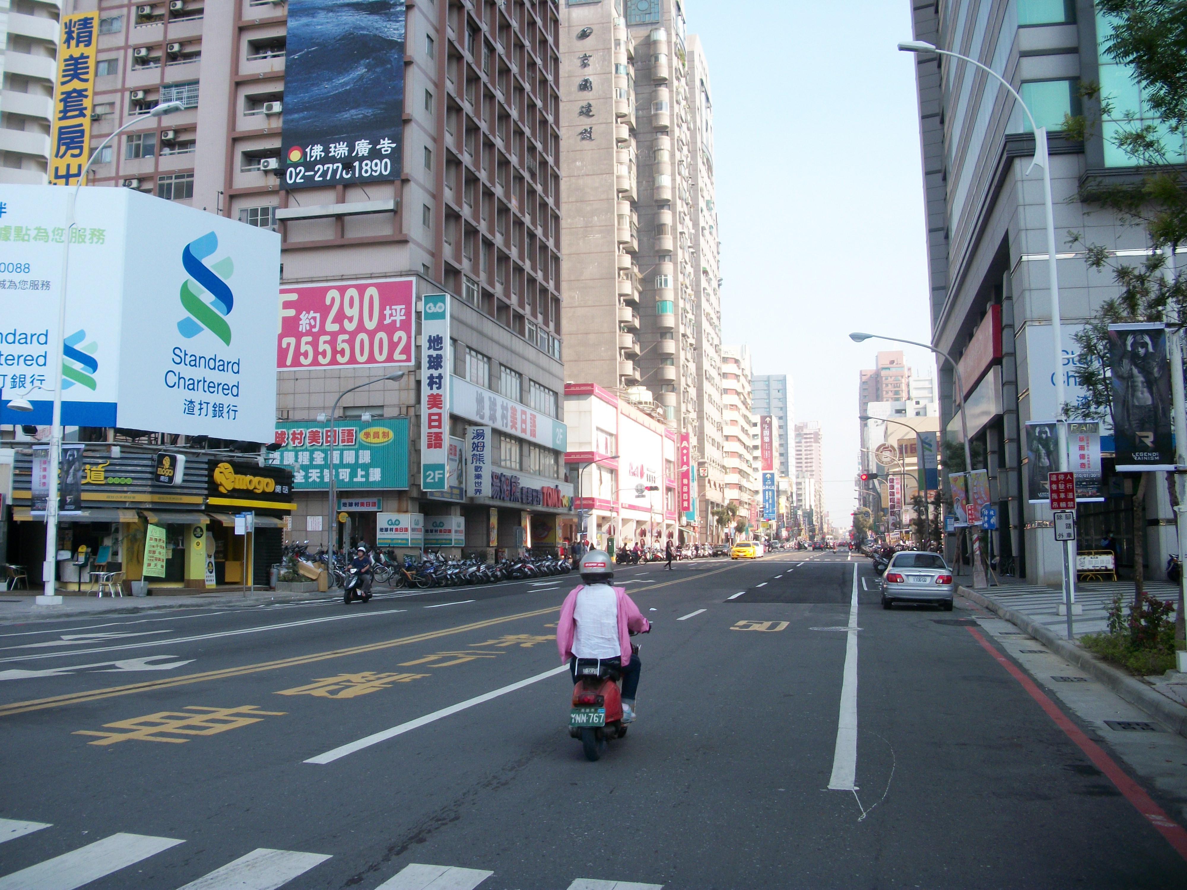 Yisin 2nd Road in Kaohsiung City,Taiwan.